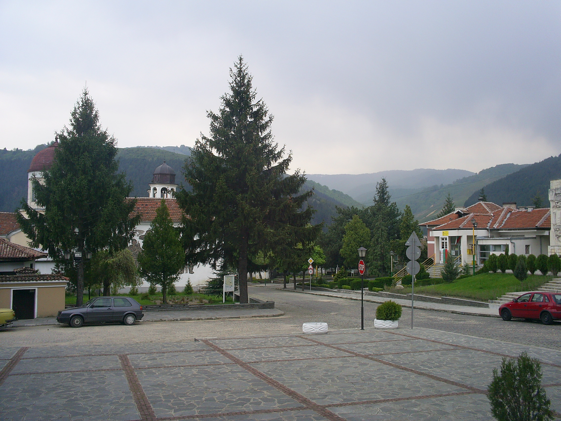 View from Klisura, Bulgaria